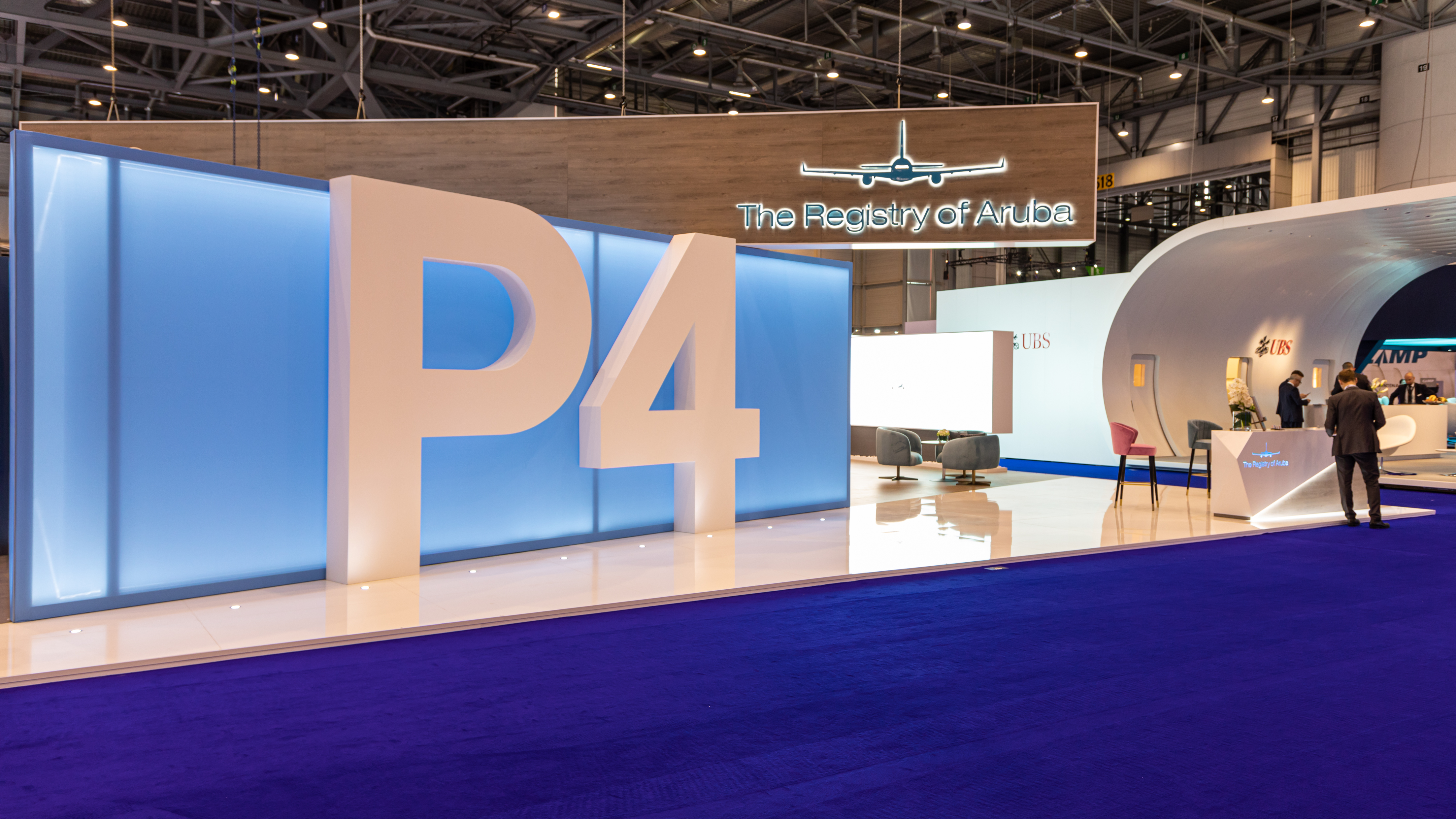 Aircraft registry of Aruba exhibiting at EBACE 2019, Palexpo, Switzerland